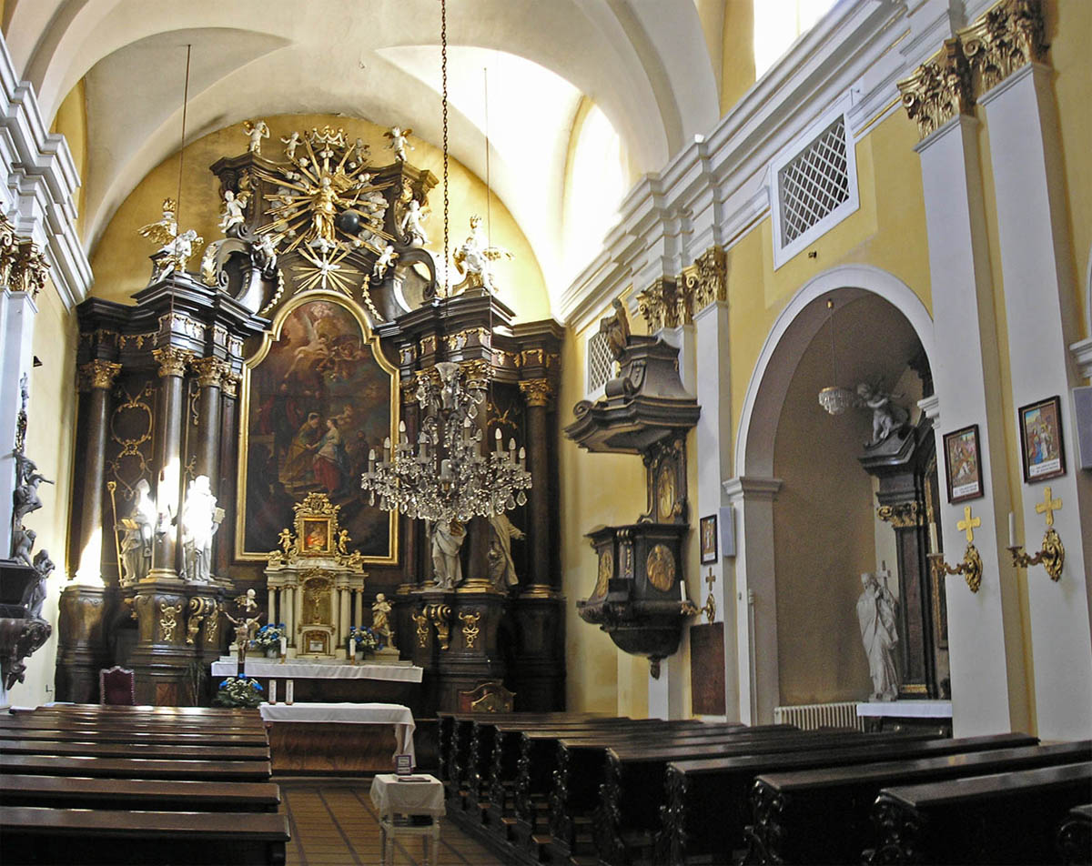 Church of the Friars of Mercy in Bratislava, Slovakia